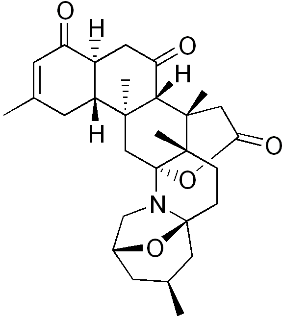 chemical structure of norzoanthamine